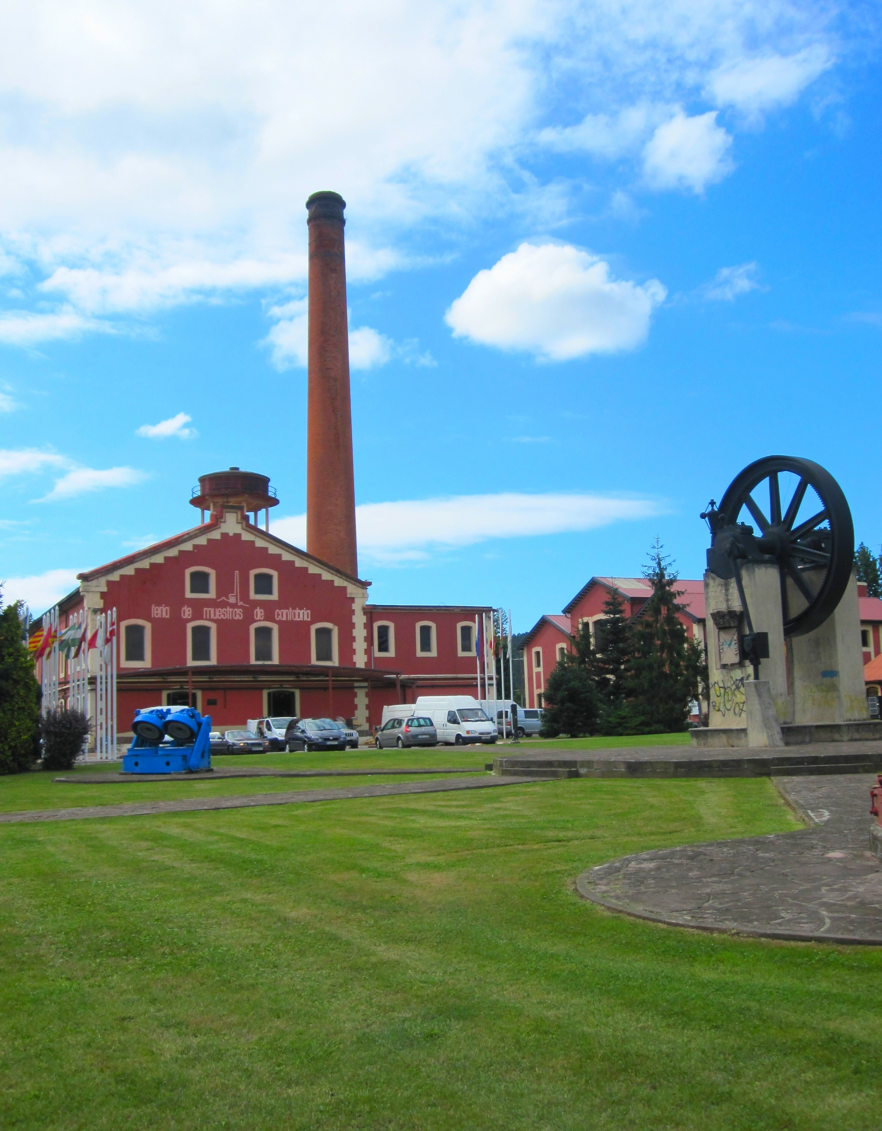 Cantabria Trade Exhibition Building (Torrelavega).